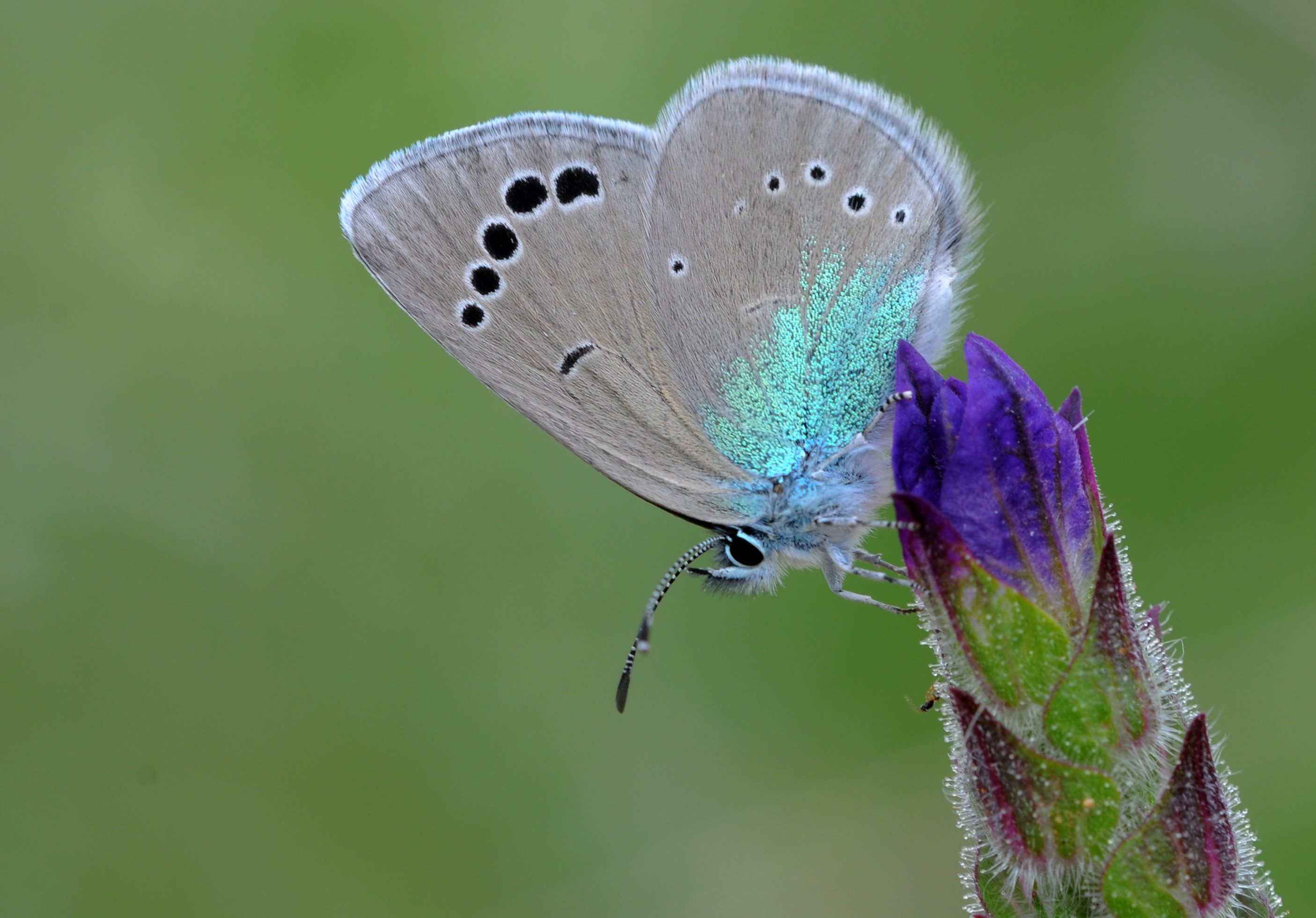 A female specimen of Green-underside Blue (Glaucopsyche alexis) butterfly.